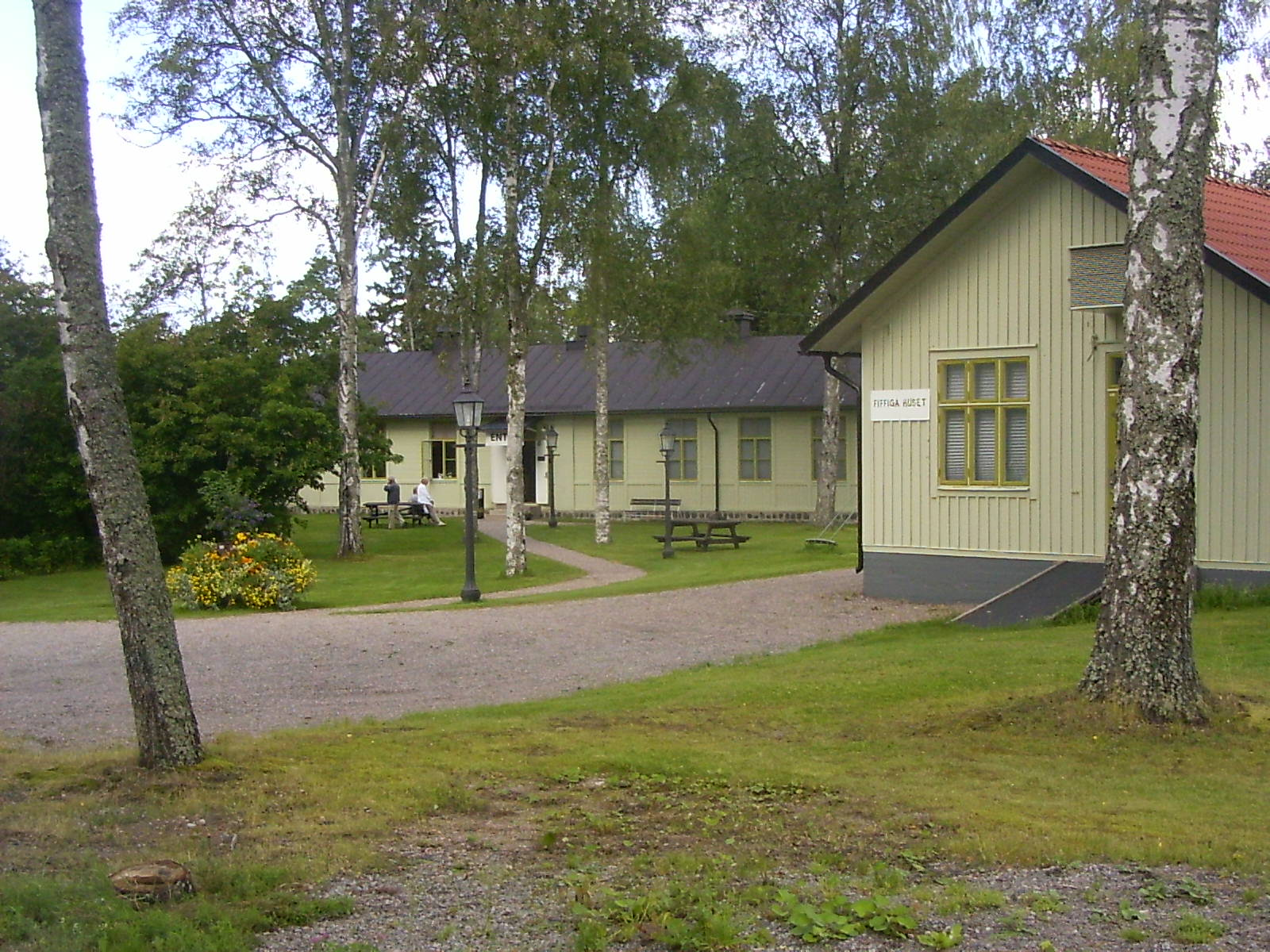 Alfred Nobel's laboratory, Björkborn, Karlskoga municipality, Sweden